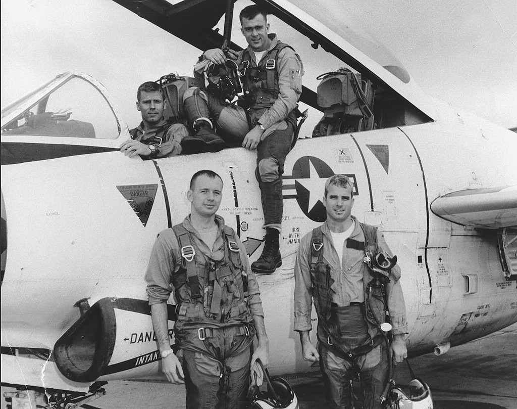 John McCain (front right) with his squadron.